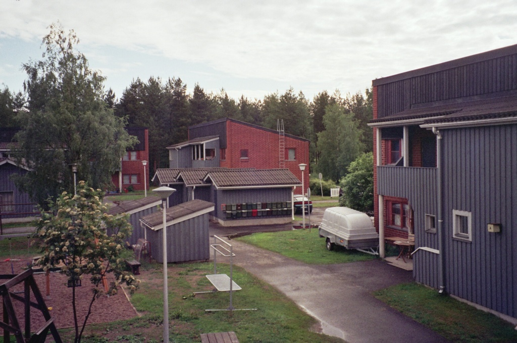 Student apartments and other related buildings at Tiedonkaari 6 in Syynimaa, Oulu, Finland.